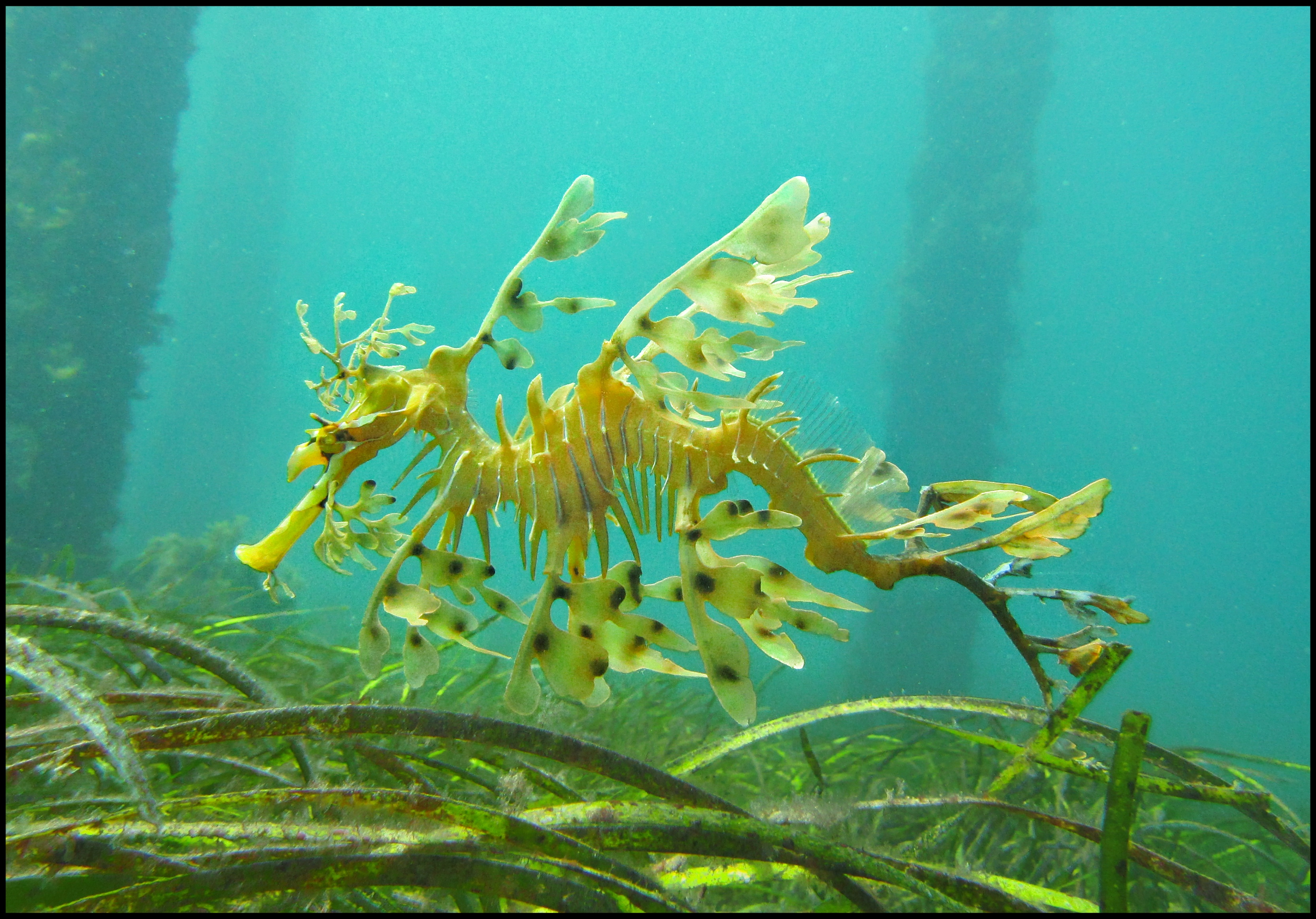 This photo was taken at Rapid Bay jetty which is part of the Encounter Marine Park in South Australia. The leafy sea dragon is a close relative of the weedy sea dragon and a brilliant example of how amazing camouflage can be! Shot with a Canon powershot d20 compact camera on 26th December 2017.